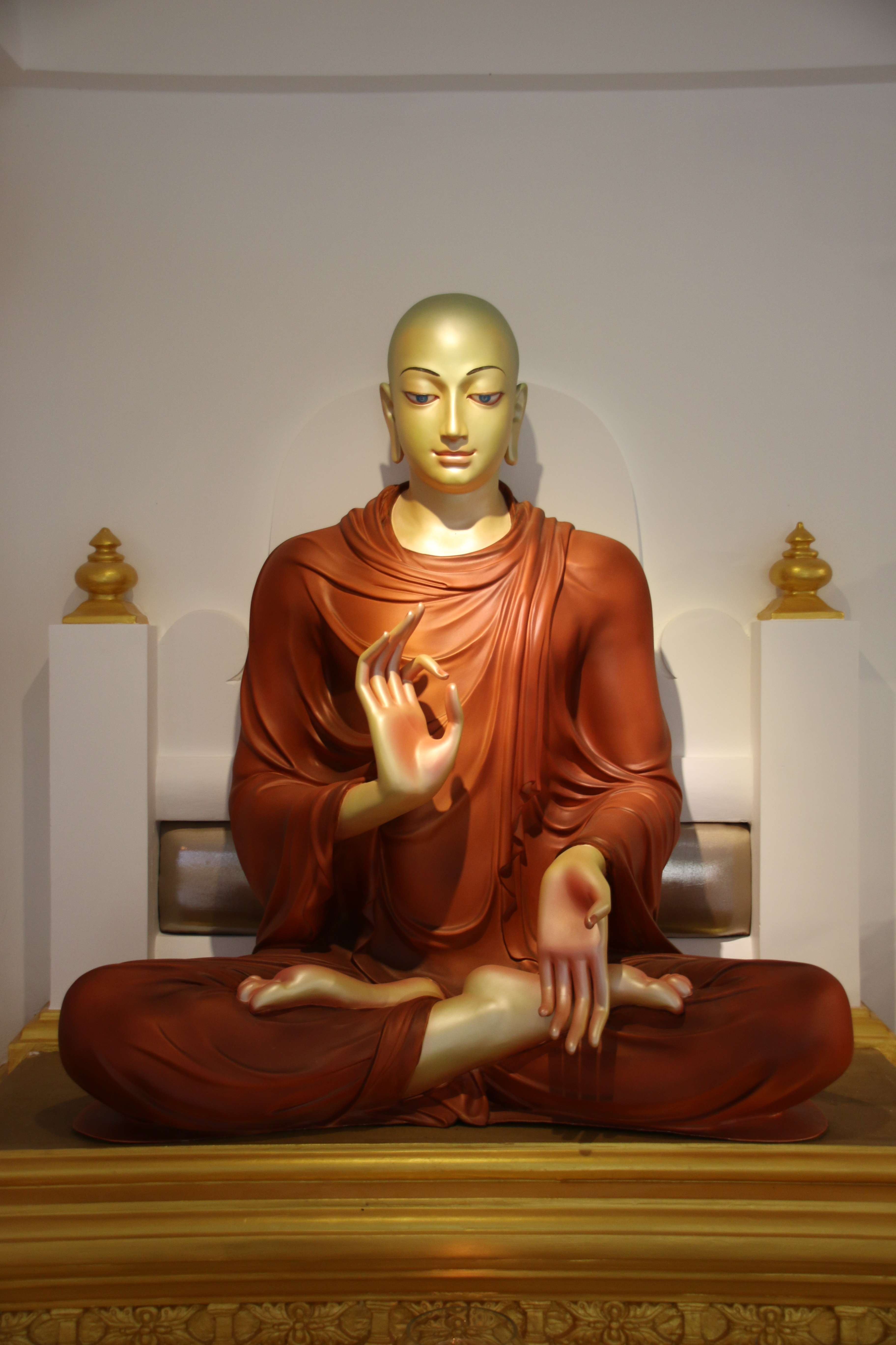 Sariputta